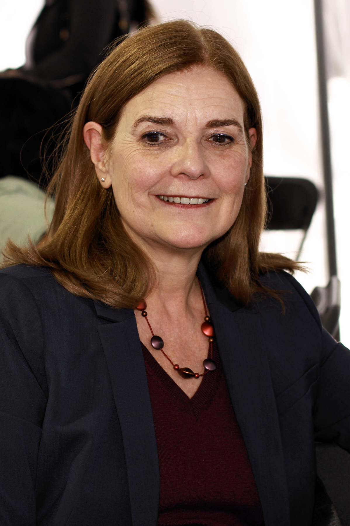 Author Anne Nelson at the 2019 Texas Book Festival in Austin, Texas, United States.